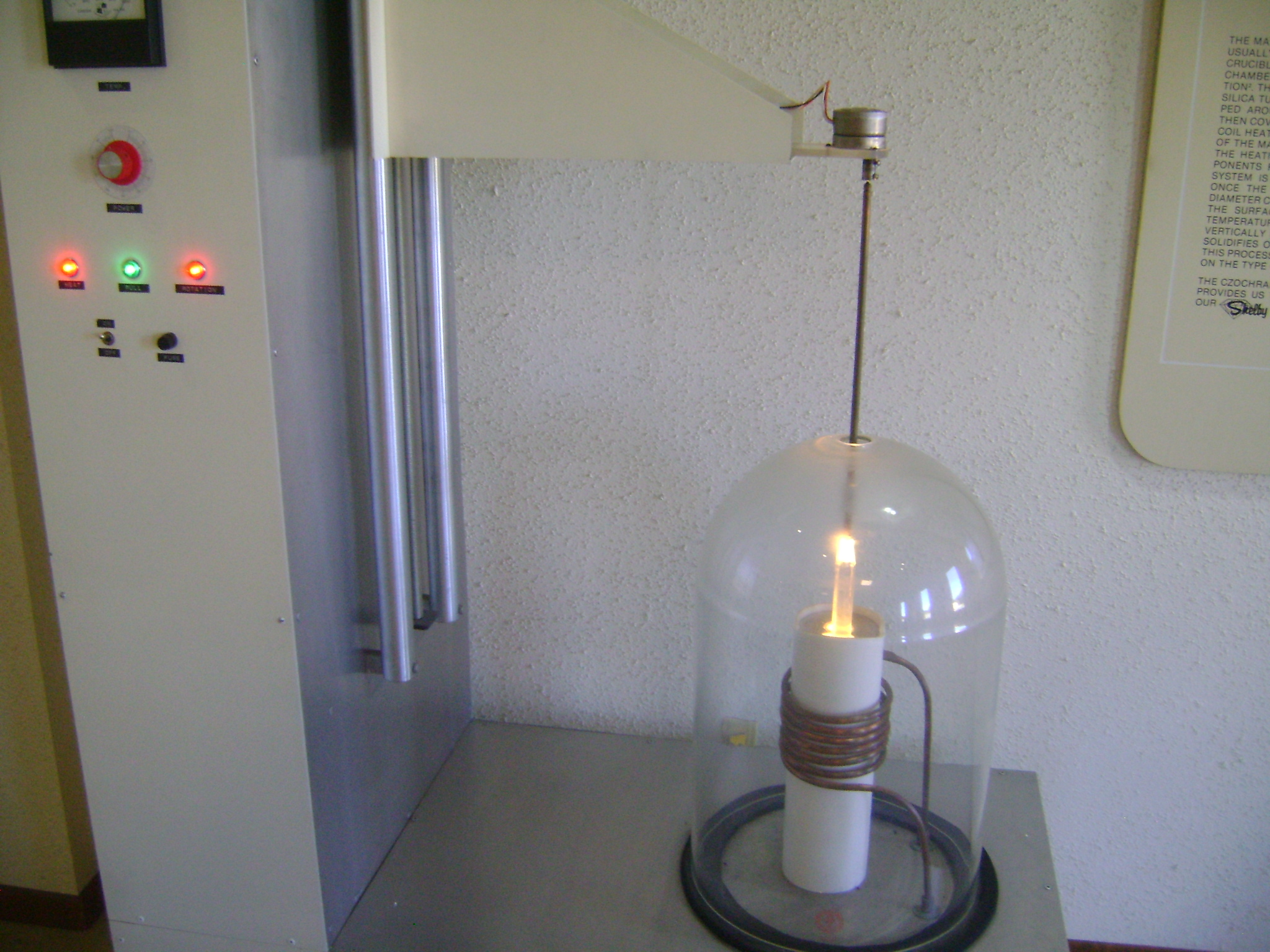 Simulator of growing crystals at Shelby Gem Factory